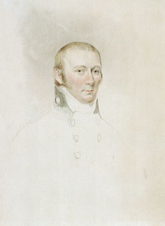 Captain Edward Riou, 1758-1801